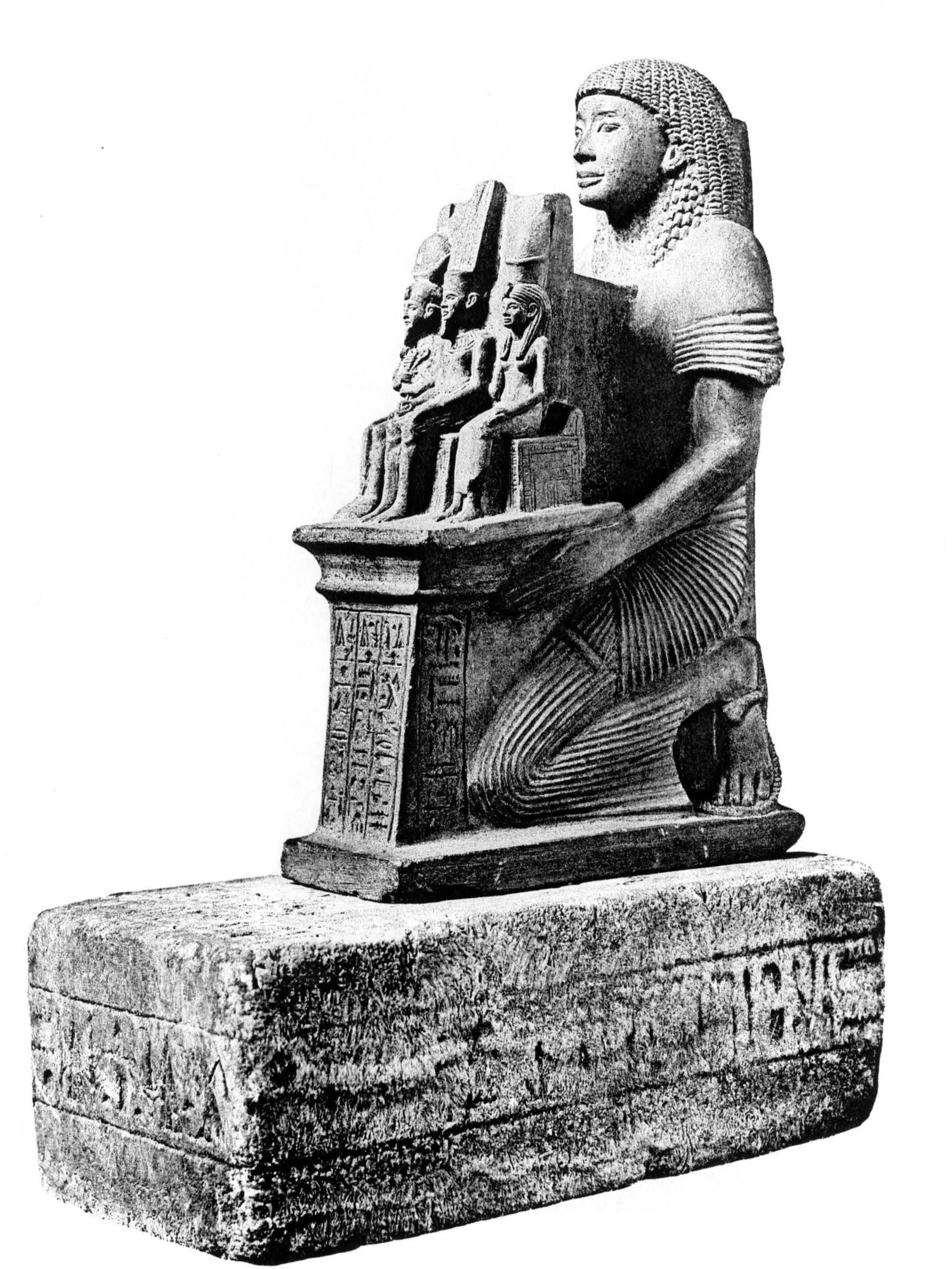 Statue of the High Priest of Amun Ramessesnakht, kneeling and holding an altar with the Theban Triad. Schist (statue) and alabaster (base), found at Karnak in the great temple cachette. Reign of Ramesses IV, 20th dynasty, New Kingdom. Cairo, Egyptian Museum CG 42163 (JE 37186).